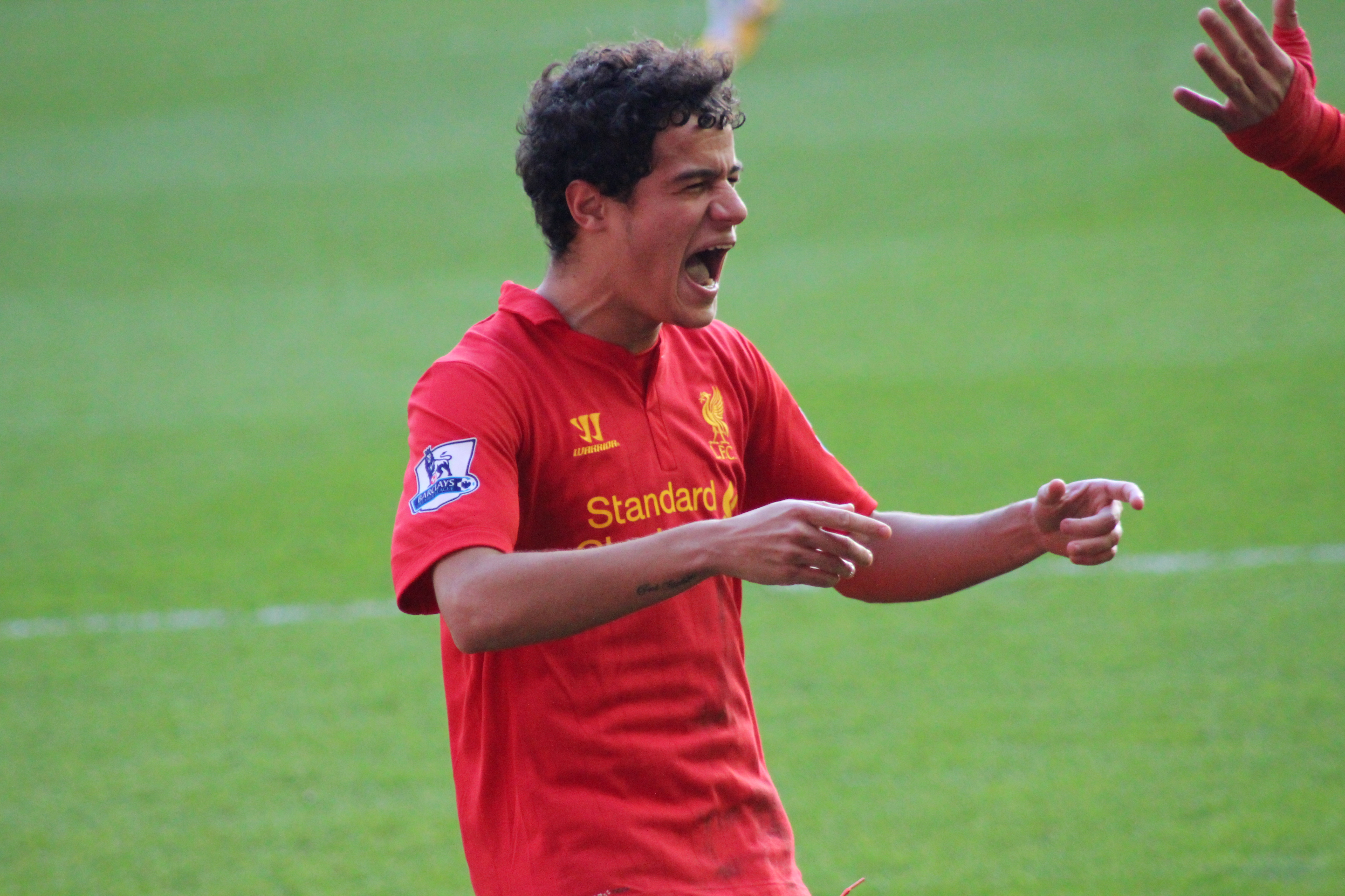 Philippe Coutinho playing for Liverpool FC against Swansea at Anfield Road on 17 February 2013.